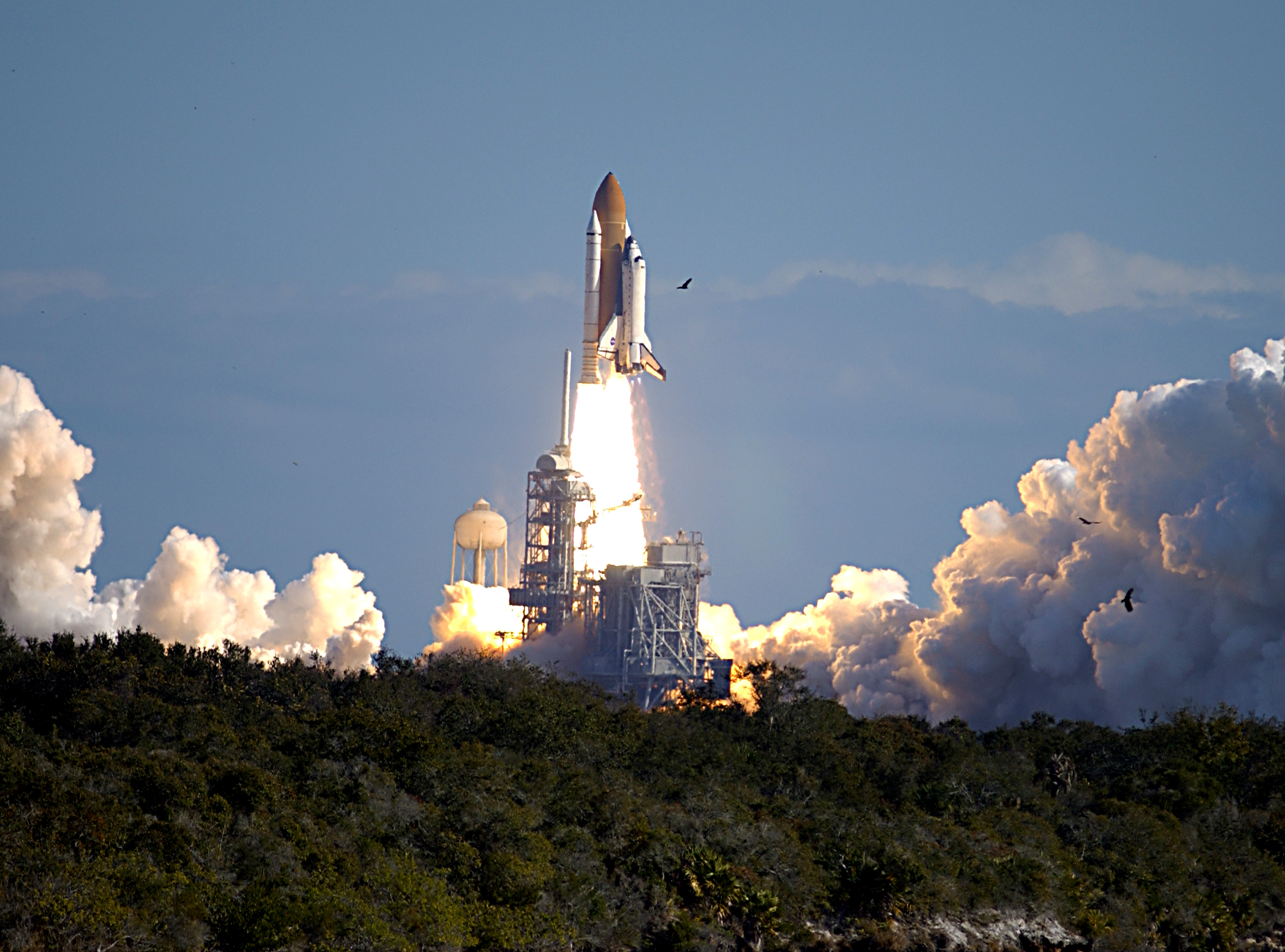 Through a cloud-washed blue sky above Launch Pad 39A, SpaceShuttle Columbia hurtles toward space on mission STS-107.Following the countdown, liftoff occurred on-time at 10:39 EST.Experiments in the SPACEHAB module ranged from materialsciences to life sciences. For more information on STS-107, please see GRIN Columbia General Explanation